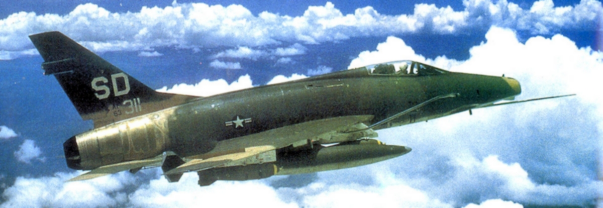 306th Tactical Fighter Wing F-100D 56-3311 in flight over South Vietnam, 1967 (USAF Photograph) (scanned)